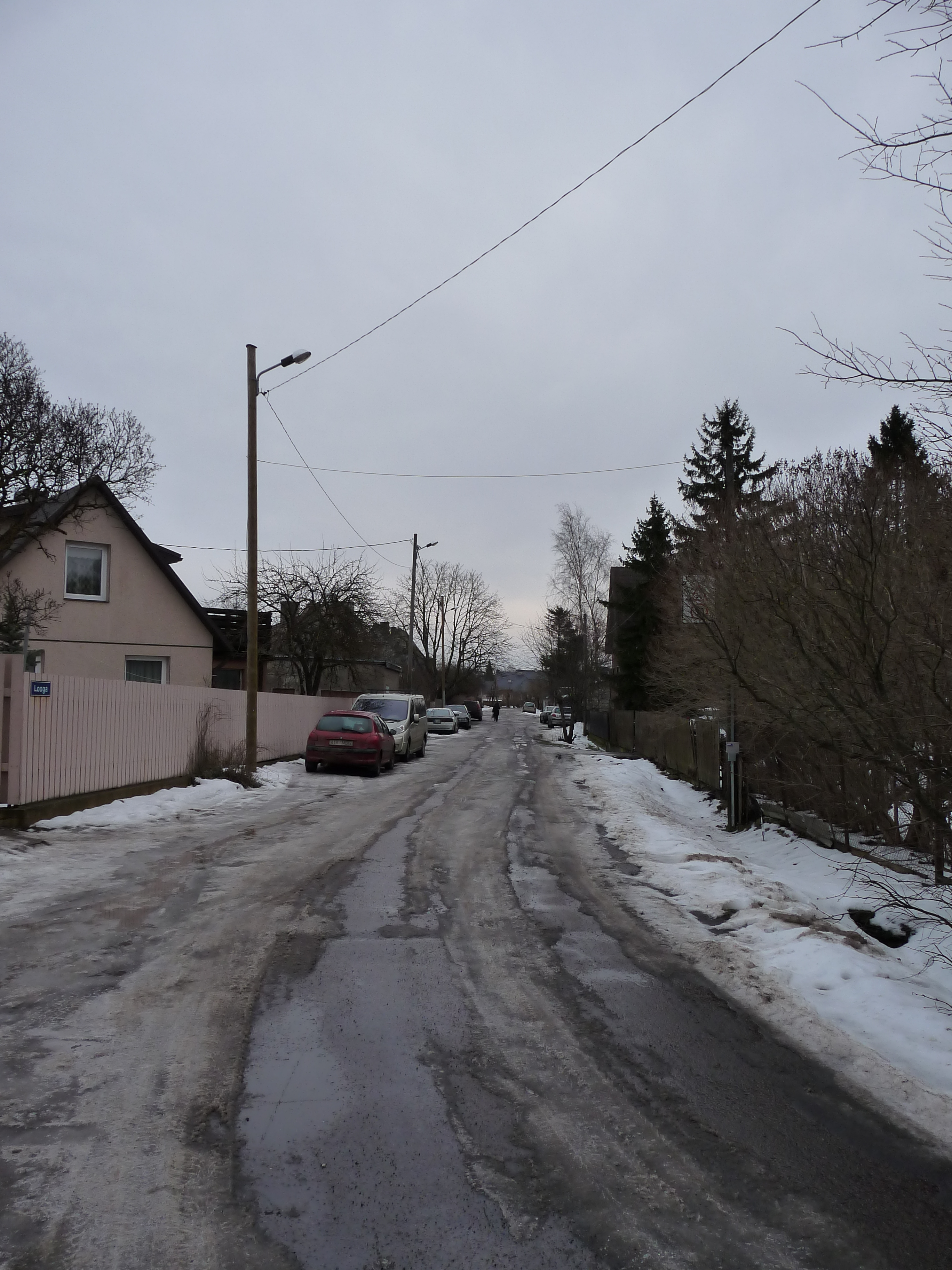 Looga street in Tallinn, Estonia